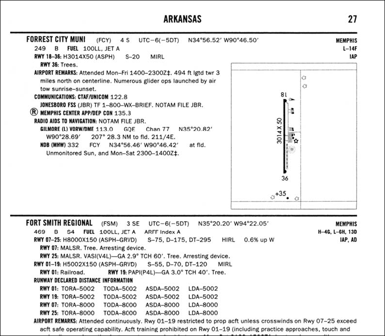 Sample page of Airport/Facilities Directory, taken from the FAA publication FAA-H-8083-25, the "Pilot's Handbook of Aeronautical Knowledge" (